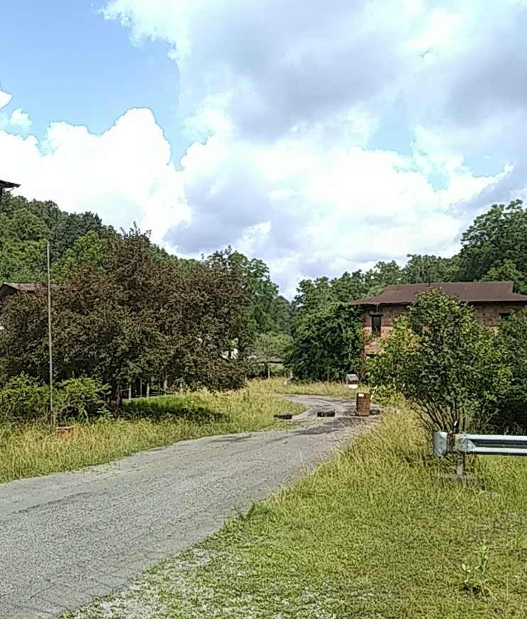 Arnold Lane was the main street through Exchange, West Virginia, which is now an uninhabited ghost town.